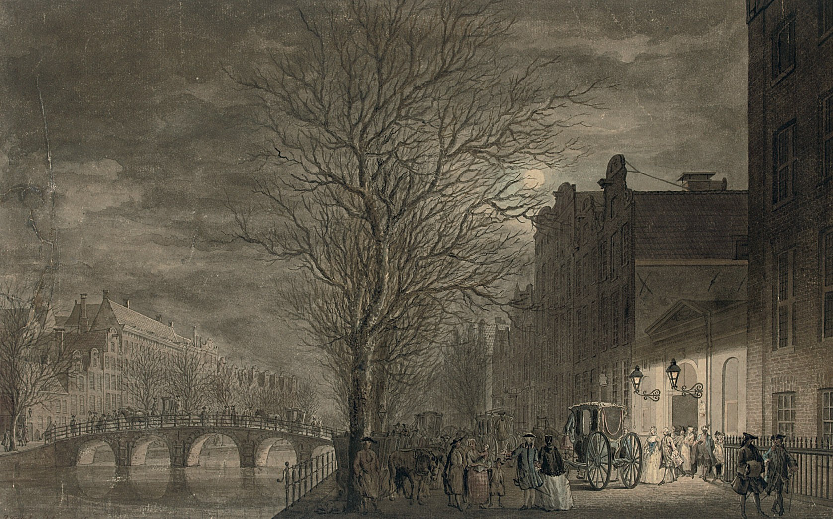 View of the Keizersgracht, Amsterdam, with people leaving the theatre. Signed and dated R Vinkeles Delineavit 760. Black chalk, pen and black ink, watercolour, 27.7 x 43 cm.